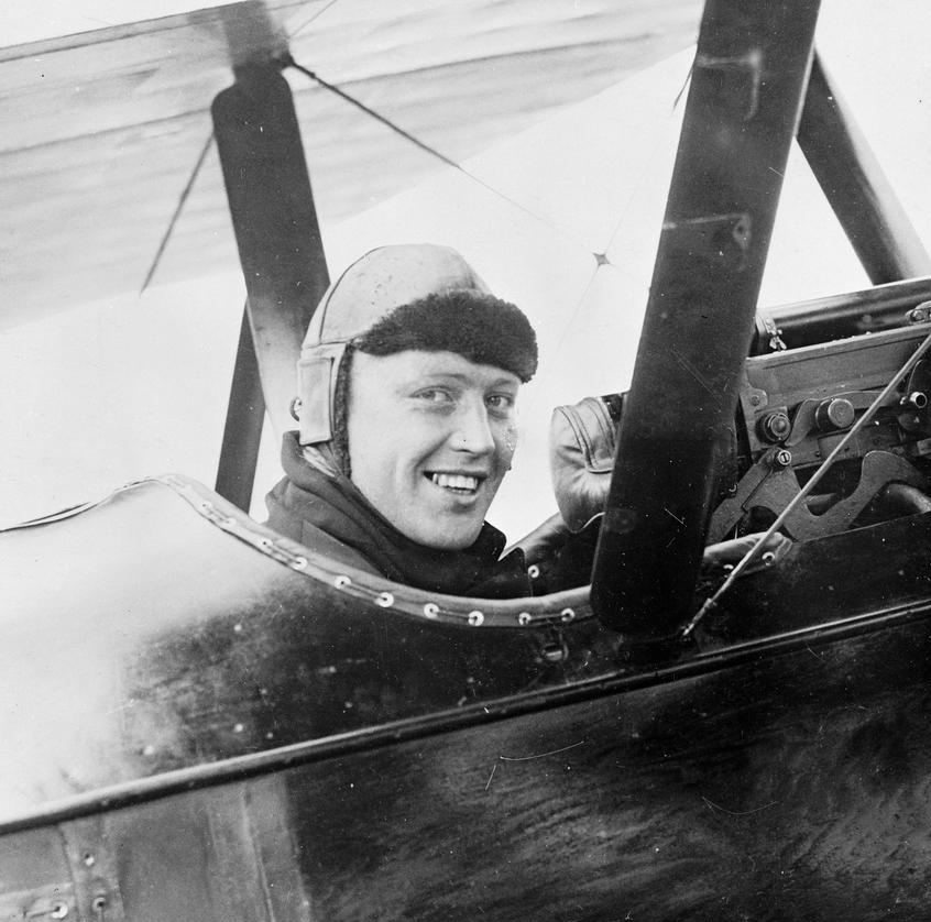 Squadron Commander Raymond Collishaw, Distinguished Service Order and Bar, Distinguished Service Cross, Distinguished Flying Cross in a Sopwith Camel Photo published in July 1918 CWM 19930012-308 (O.2860) This file is intended to replace